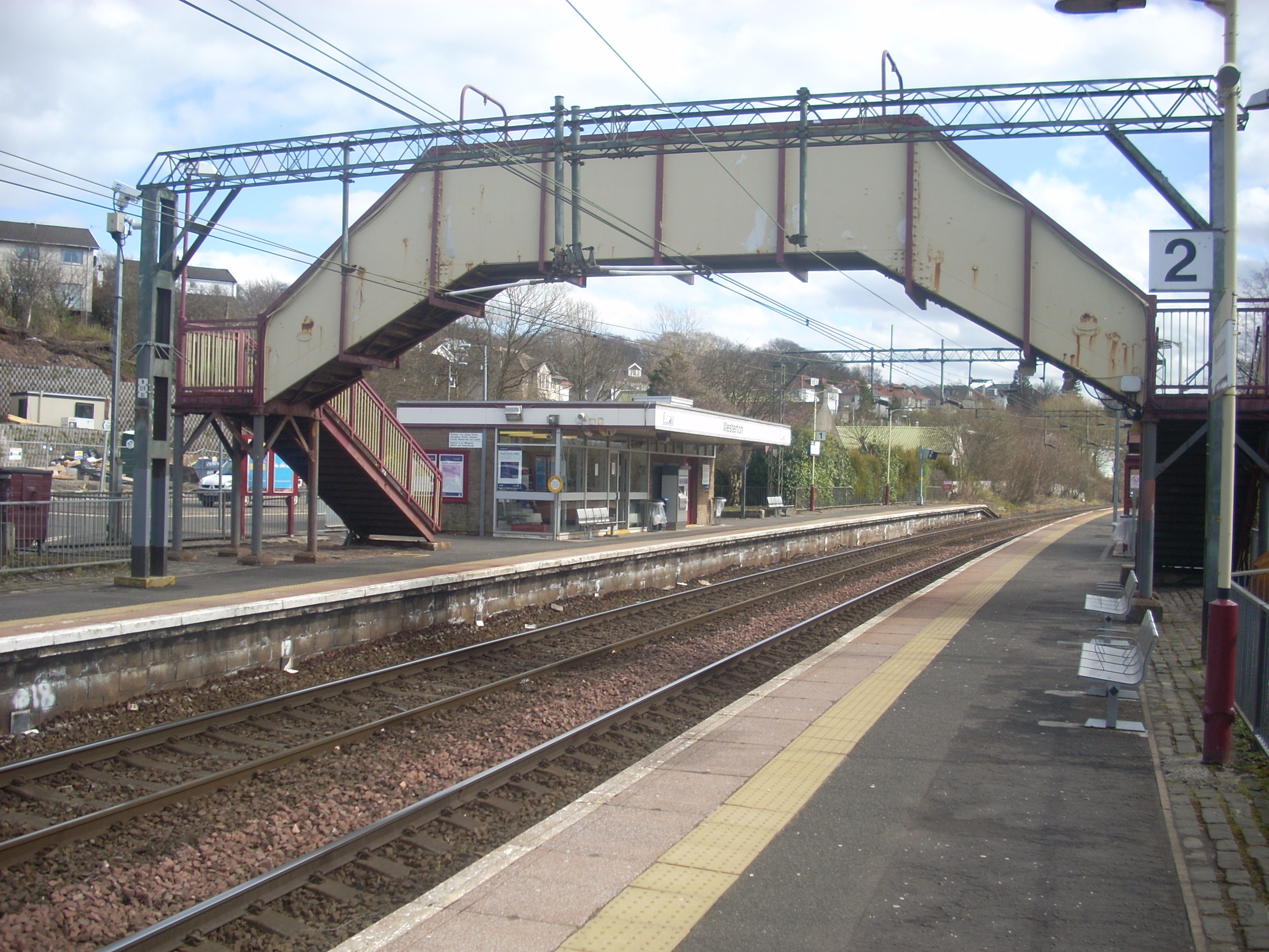 Westerton rail station, nr Glasgow